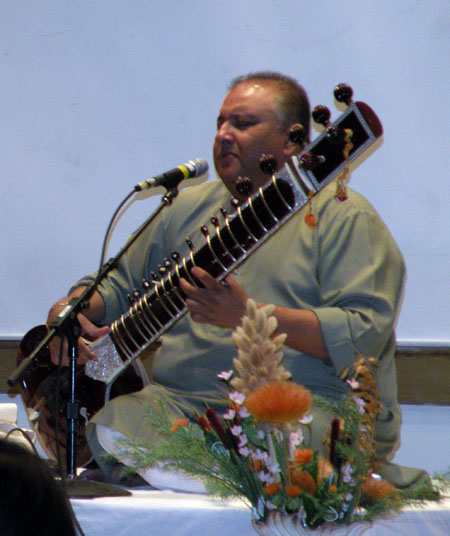 Picture of Shujaat Khan performing at the Frick Fine Arts Building's Auditorium in Pittsburgh, Pennsylvania, on May 8, 2011.